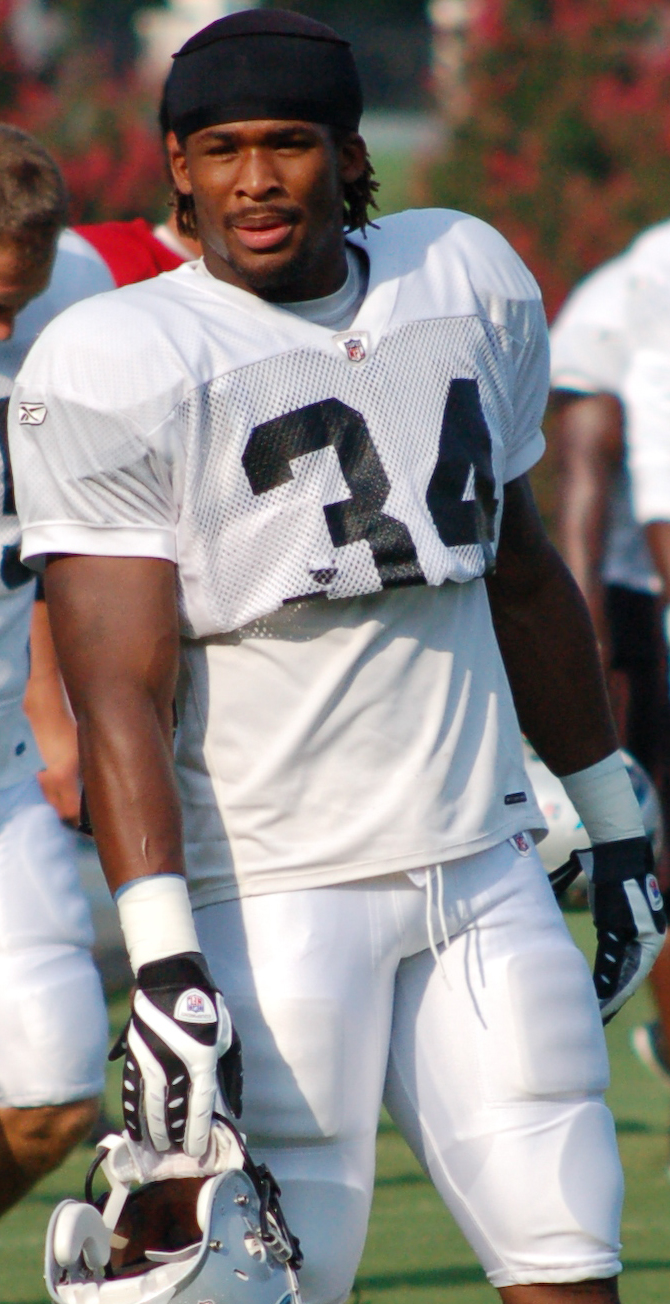 DeAngelo Williams at the Carolina Panthers' training camp on 8/6/2008.